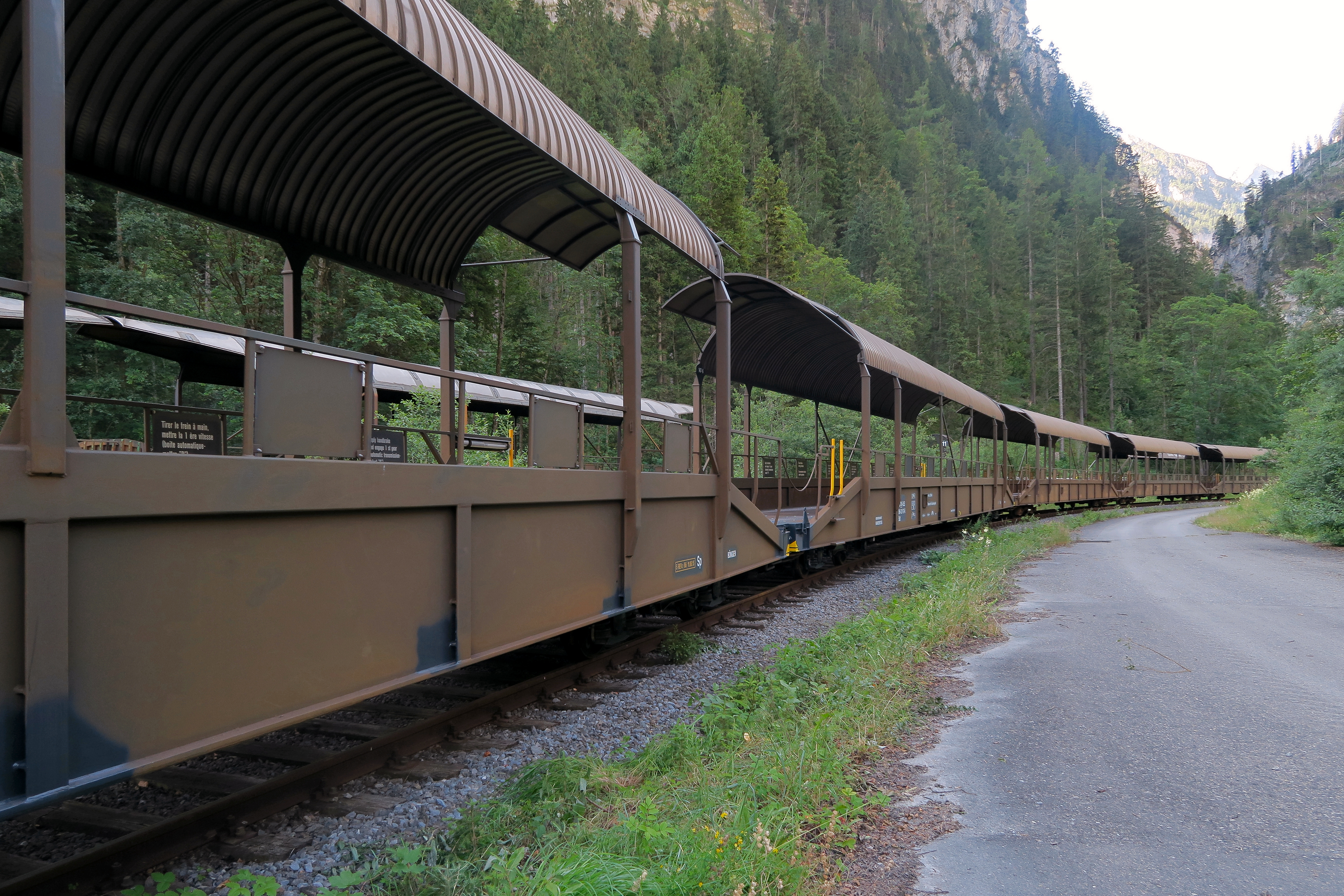 On sidings of the BLS Lötschberg Railway from the time when a large bunker was built 1987-1998 near Kandersteg. Switzerland, July 10, 2015.